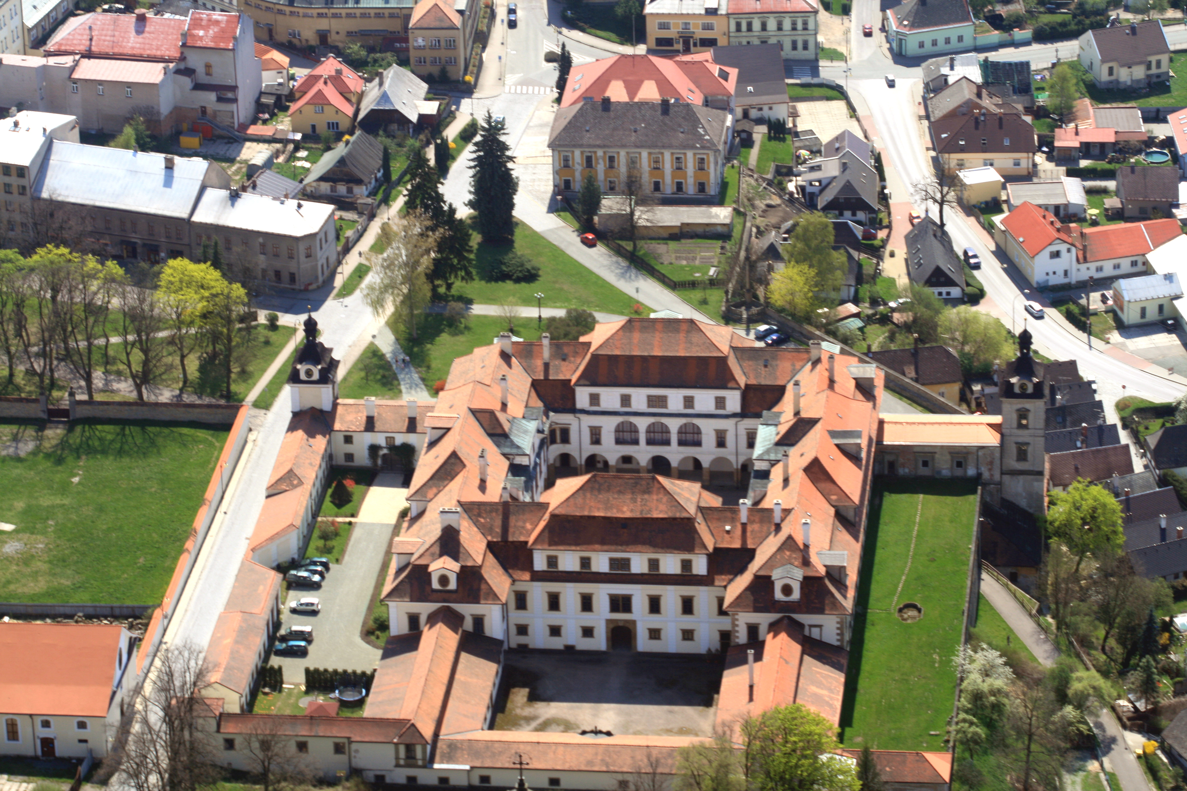 Castle in town Rychnov nad Kněžnou from air, eastern Bohemia, Czech Republic